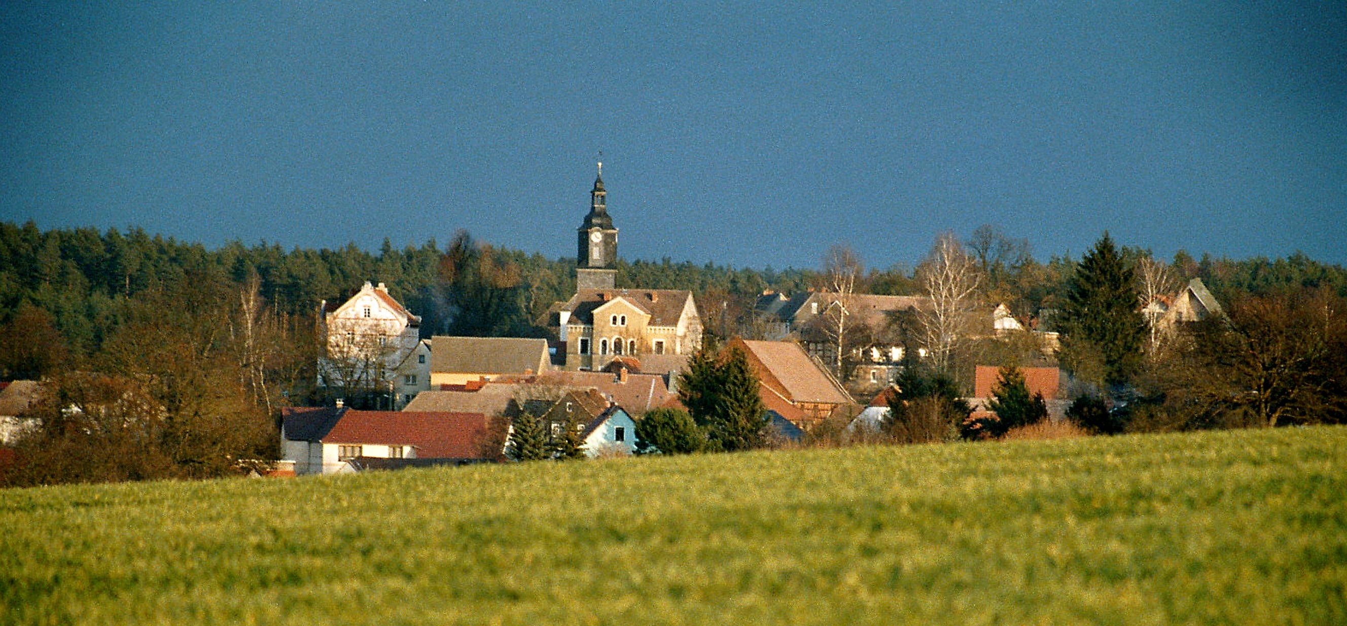 View to the village Ruttersdorf